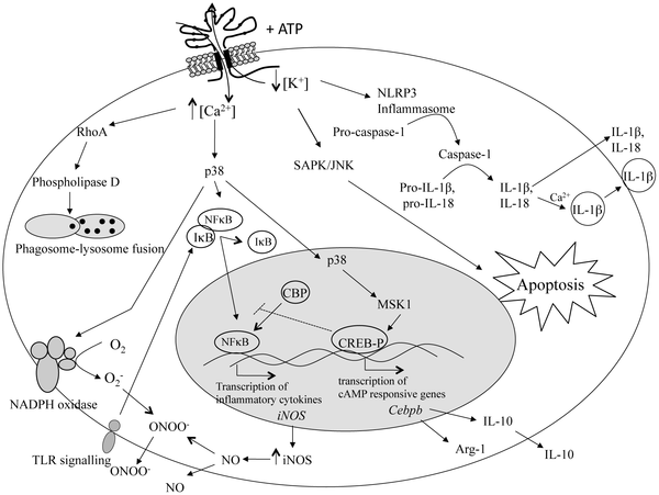 Intracellular pathways in immune cells stimulated by P2X7 receptor activation